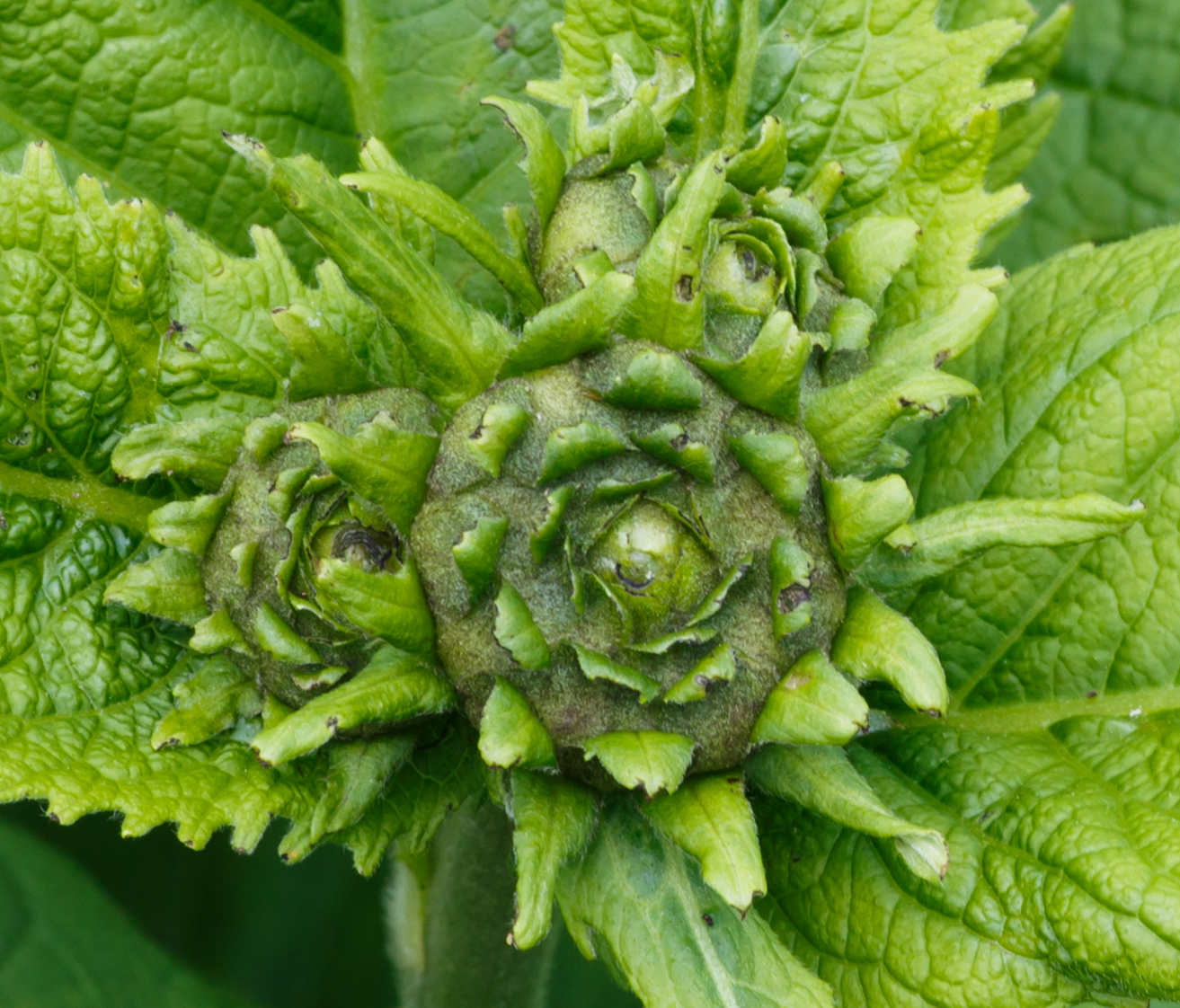 Telekia speciosa. Location, The Kruidhof in the Netherlands.